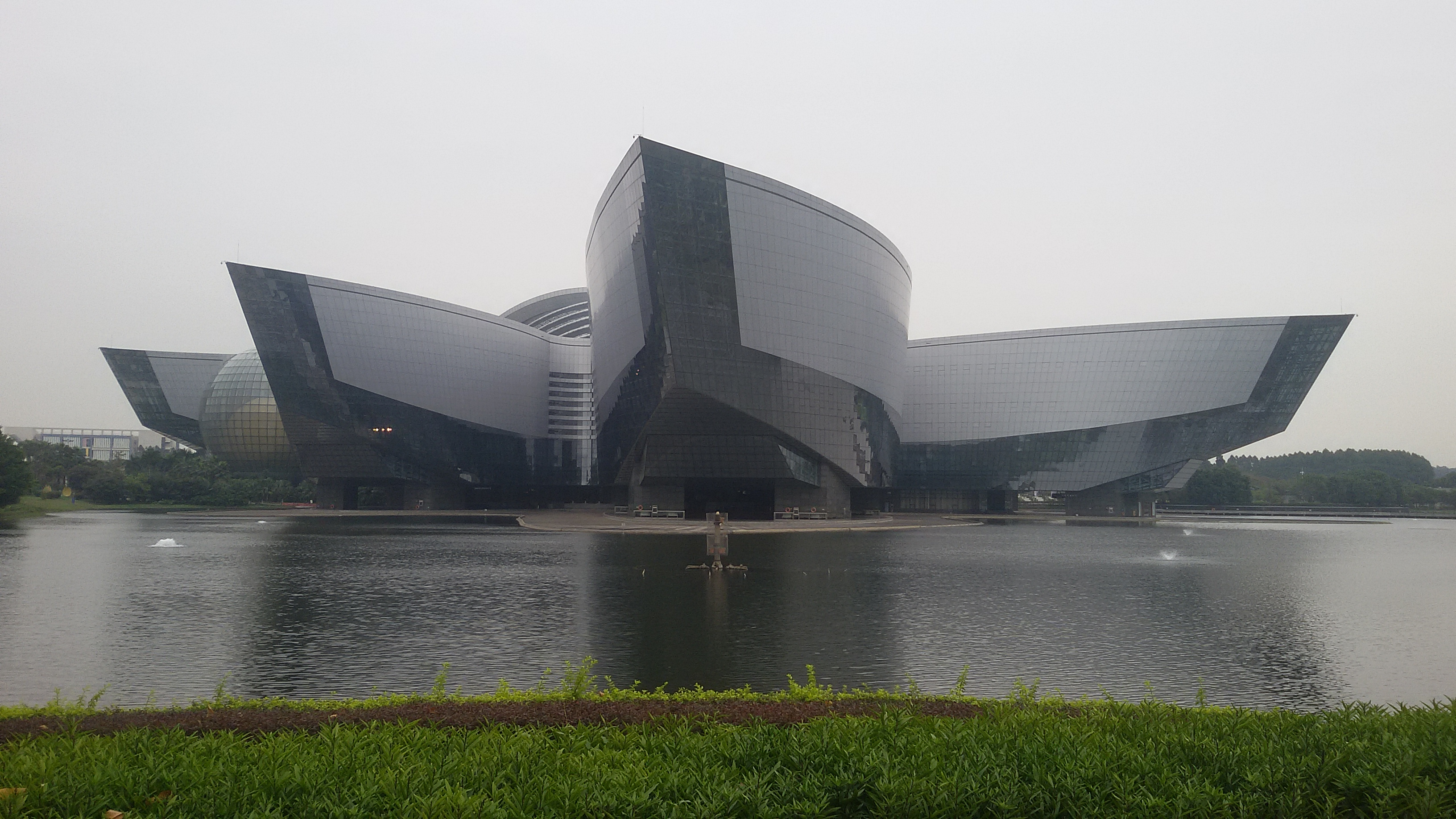 Guangdong Science Center (BACK)